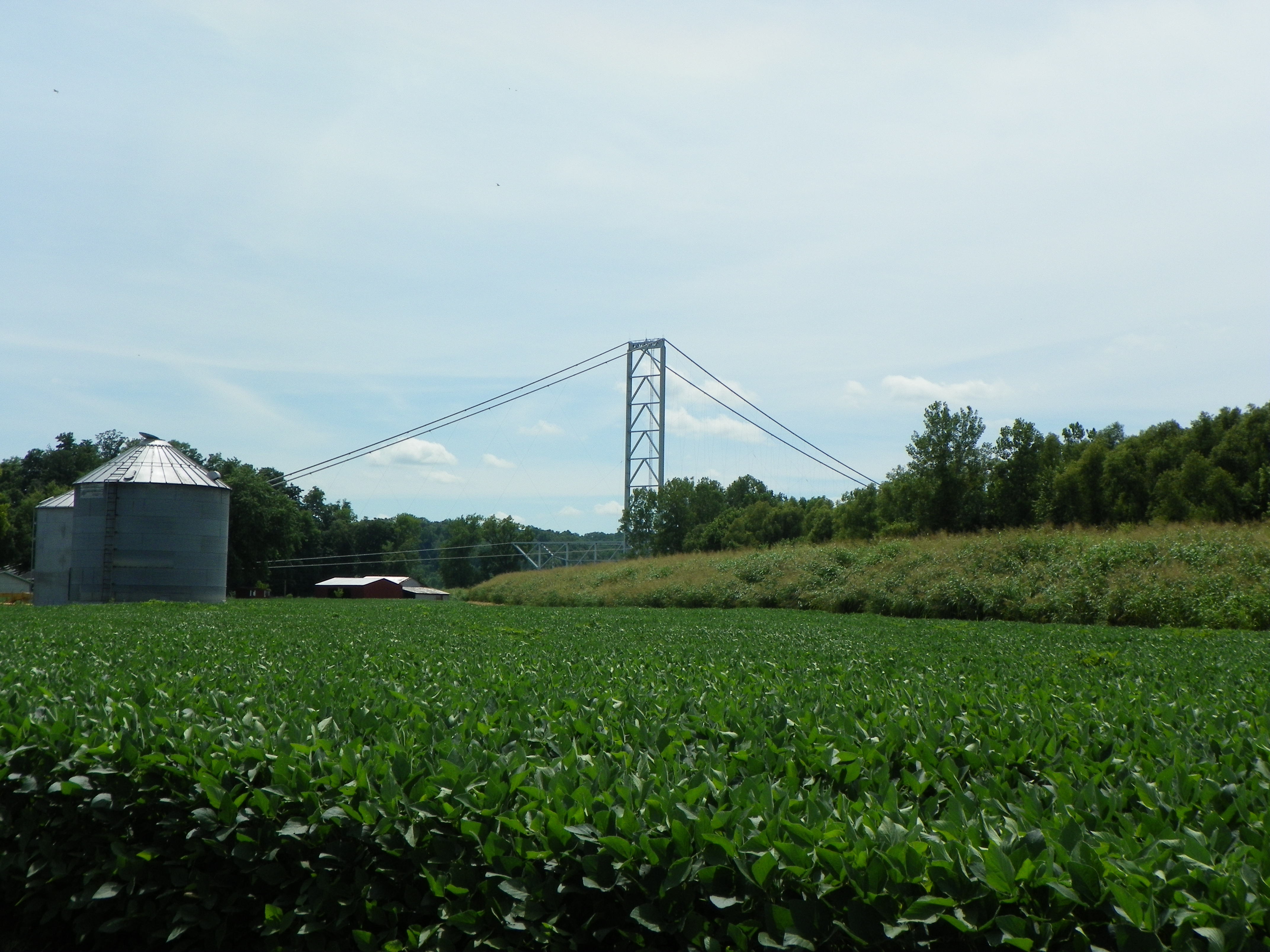 Grand Tower Pipeline Bridge, view from Illinois highway 166